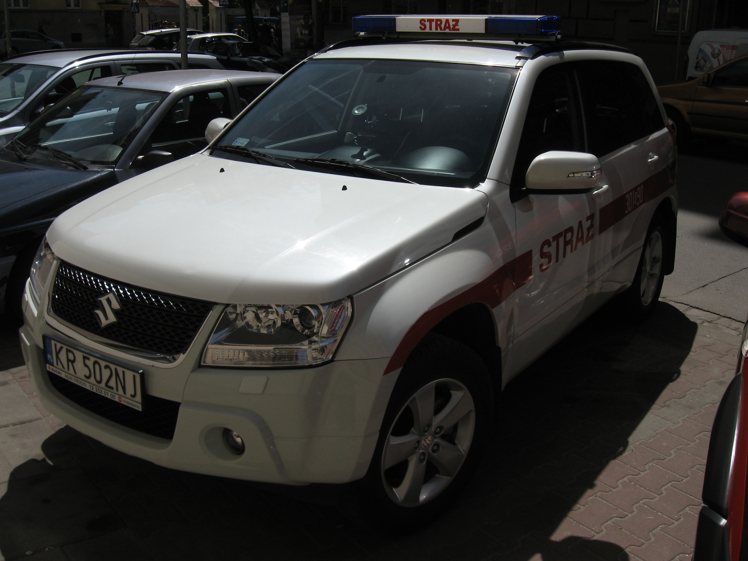 SLOp Suzuki Grand Vitara of JRG 1 on Skarbówka street in Kraków.